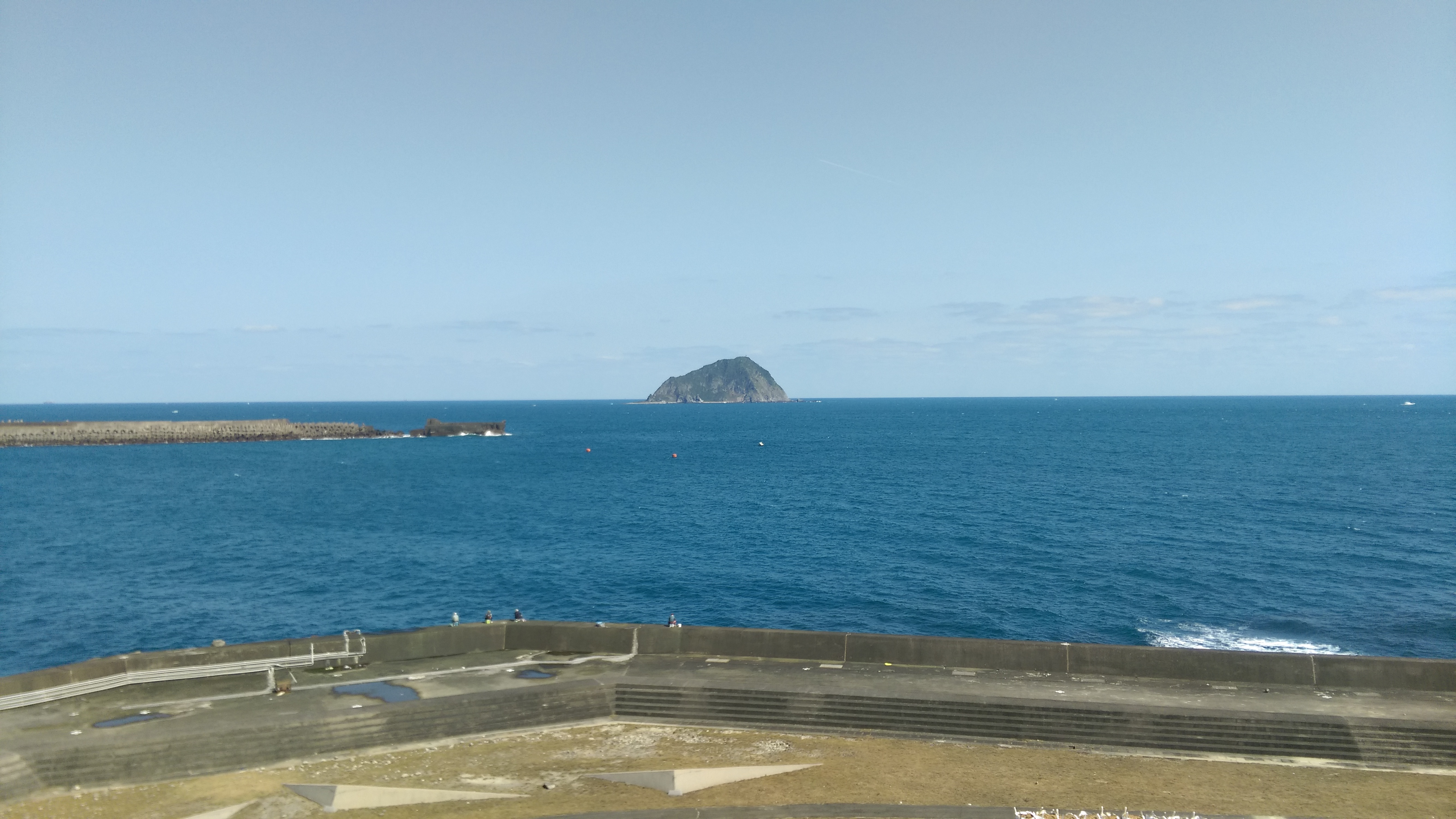 The Keelung Islet